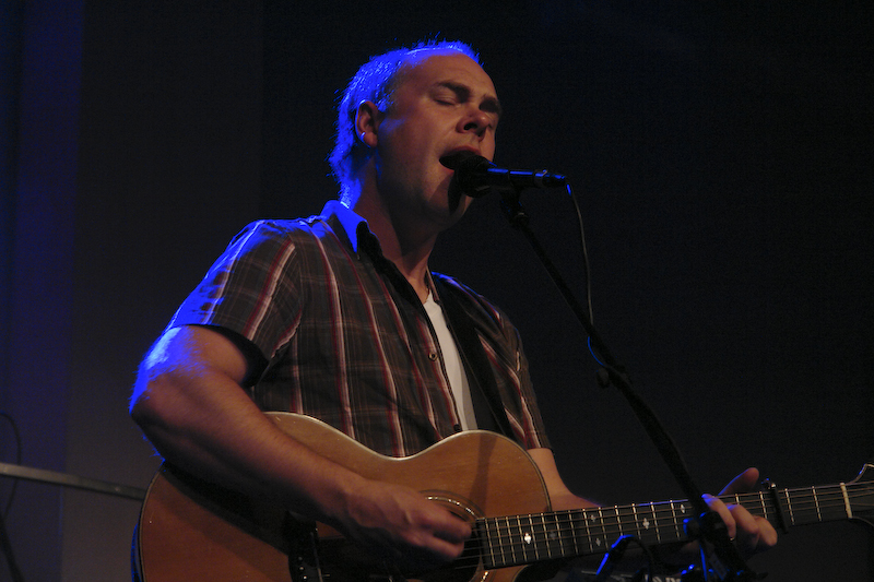 Brian Doerksen performing at a concert in 2008.